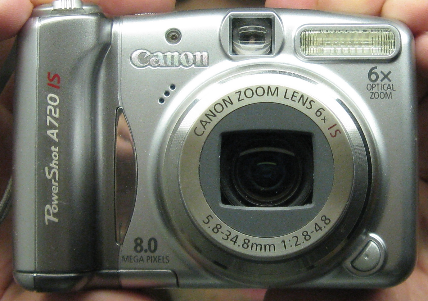 Shot the camera by itself in front of a mirror.